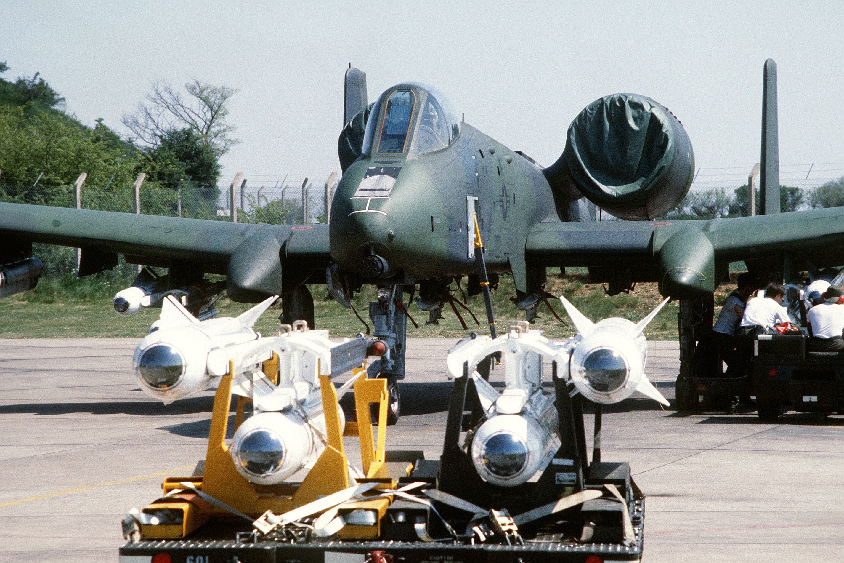 A front view of an A-10 Thunderbolt II aircraft being uploaded with AGM-65 Maverick missiles.